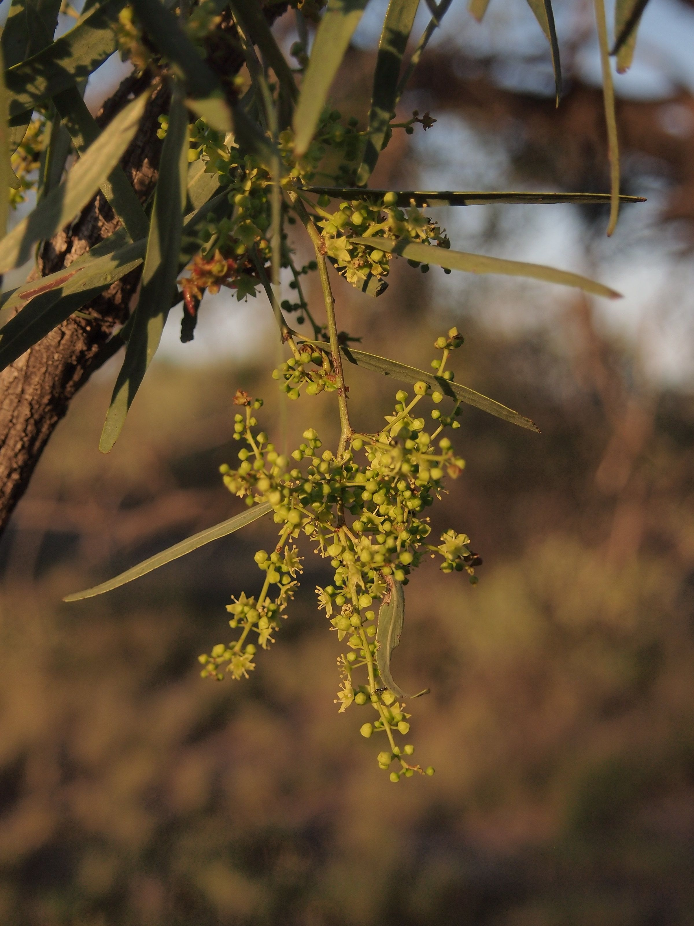 Ventilago viminalis flowers